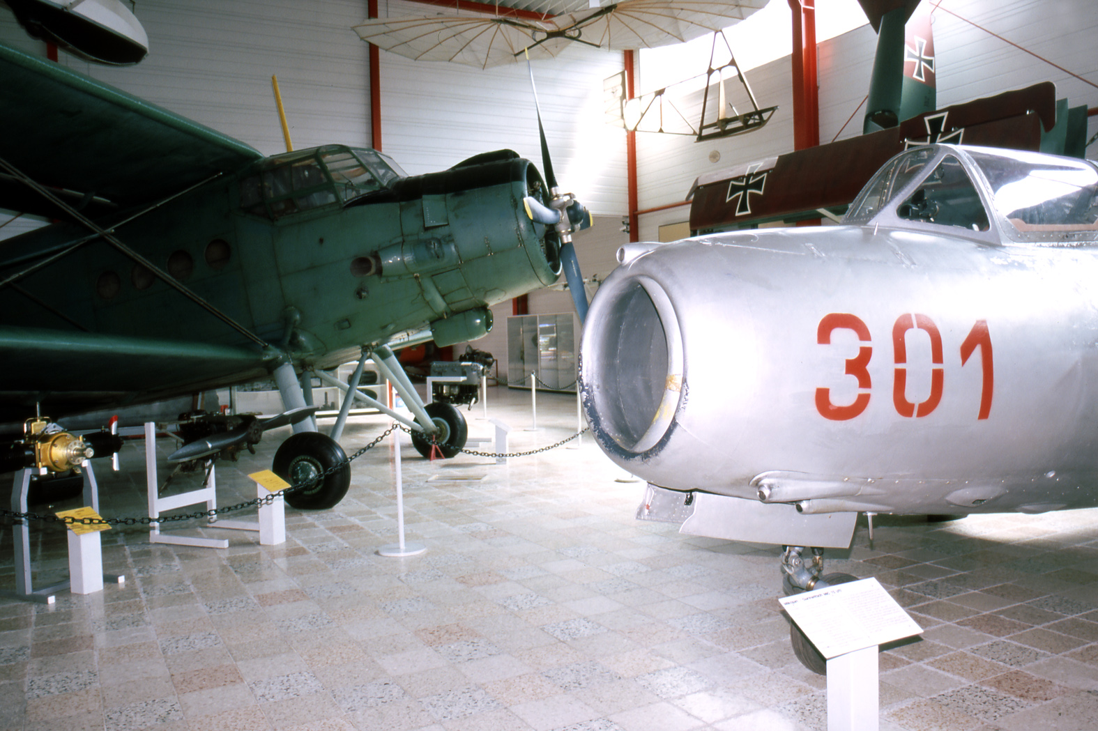 Aircraft exhibition, Mig-15UTI 301 and An-2 HA-ANA; Hermeskeil, Rhineland-Palatinate, Germany